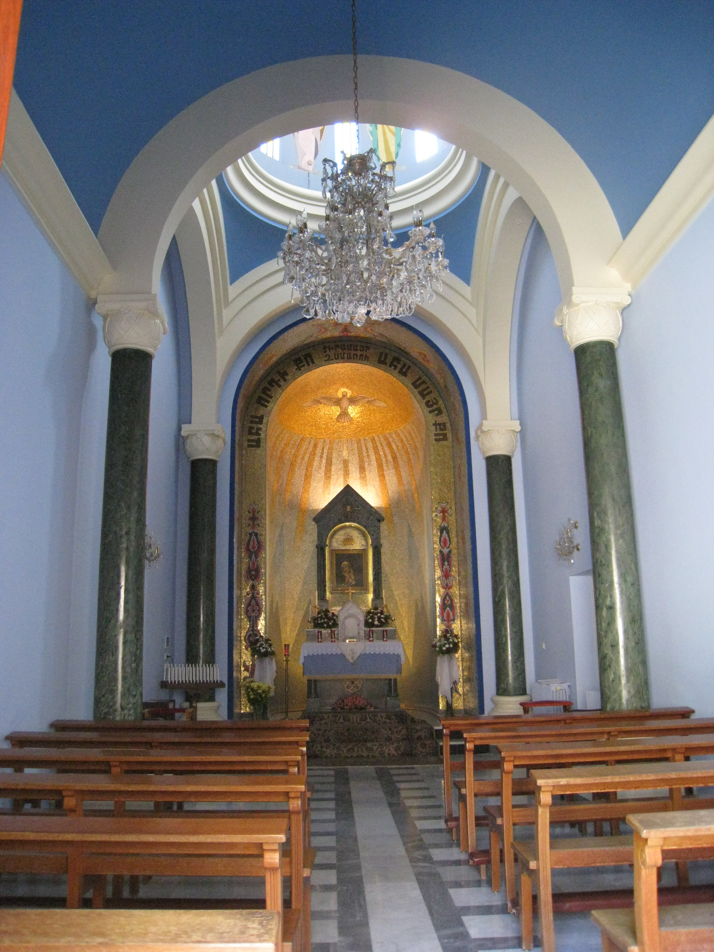 Inside the Armenian Catholic Our Lady of the Assumption Church" in Bzoummar, Lebanon.